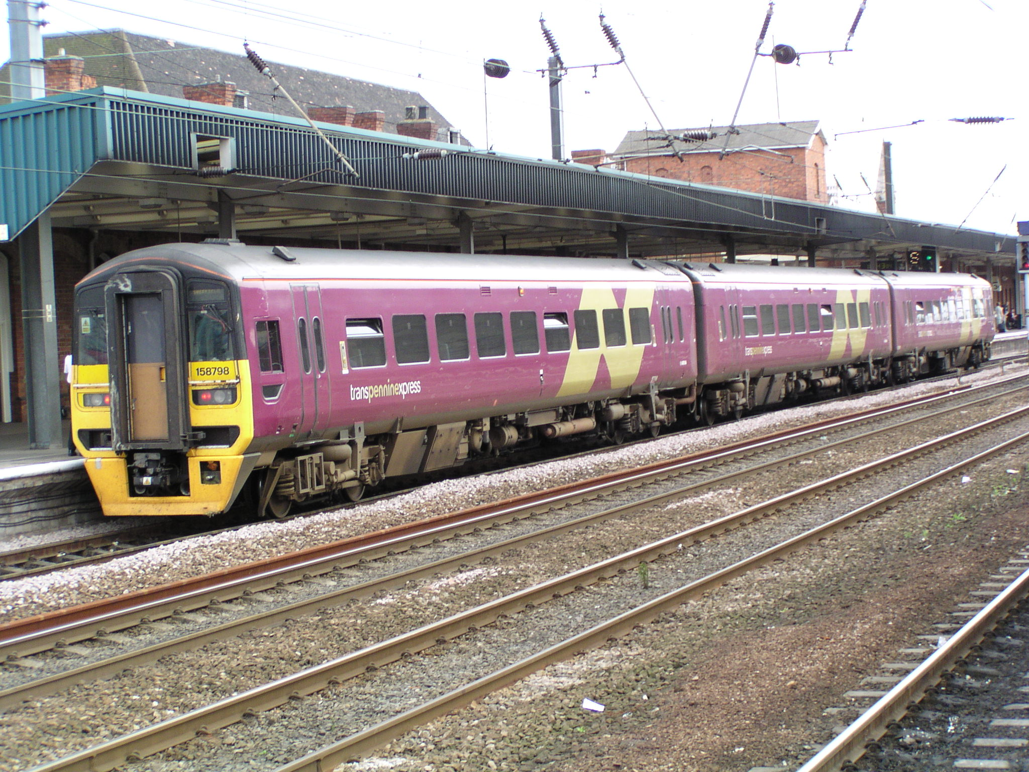 BR Class 158, no. 158798 at Doncaster on 27th July 2003.